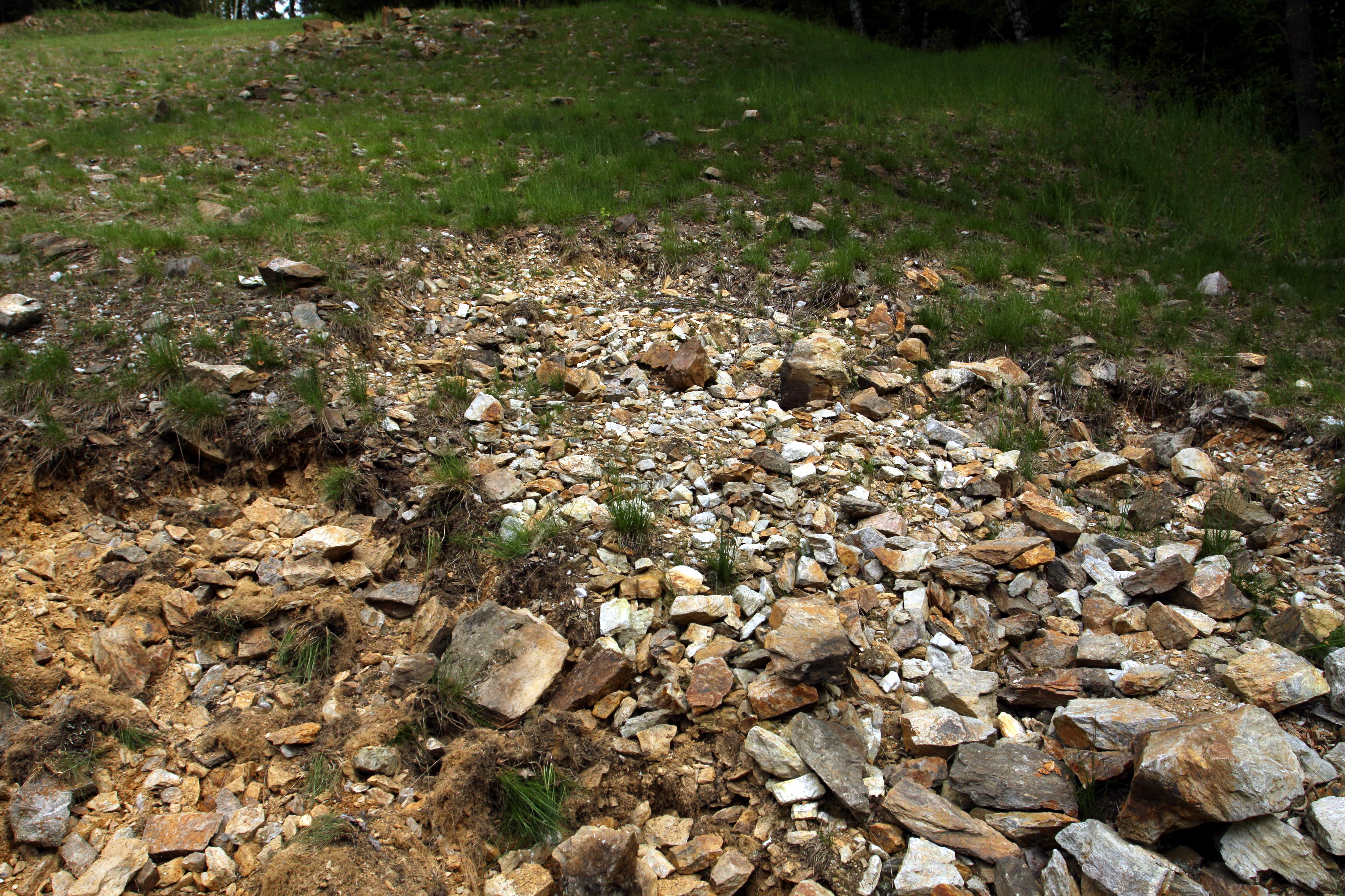 Natural monument Vernéřovské doly near Vernéřov village in Cheb District, Czech Republic